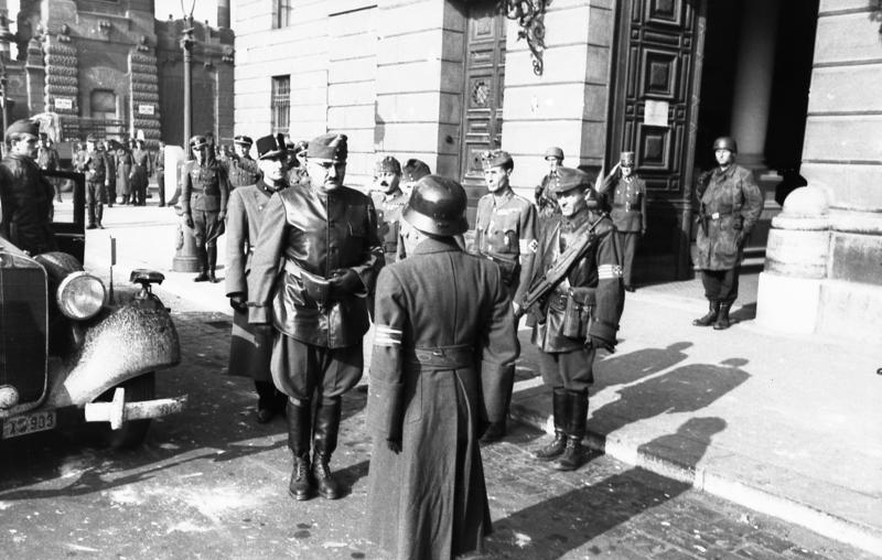 The Hungarian General is Károly Beregfy.